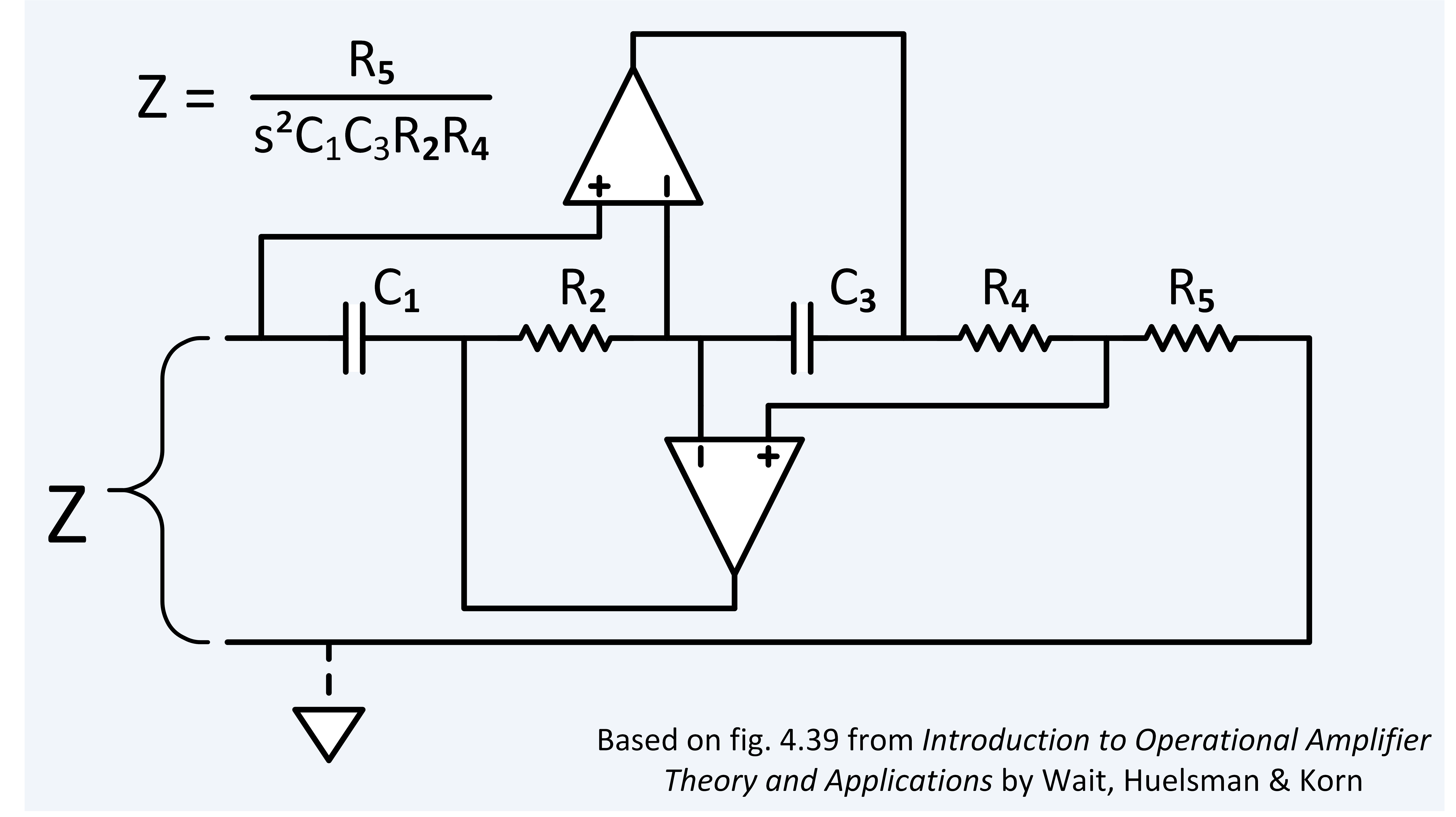 Schematic of a grounded frequency dependent negative resistor sub-circuit. Its applications include use in a simulated ladder filter.